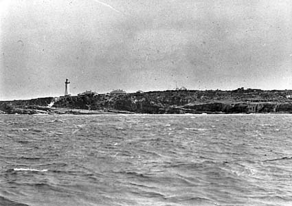 Green Cape, 1917.